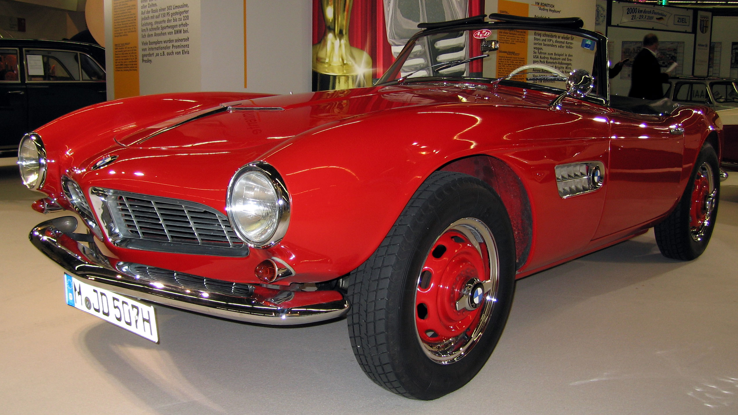 BMW 507 at the IAA 2007